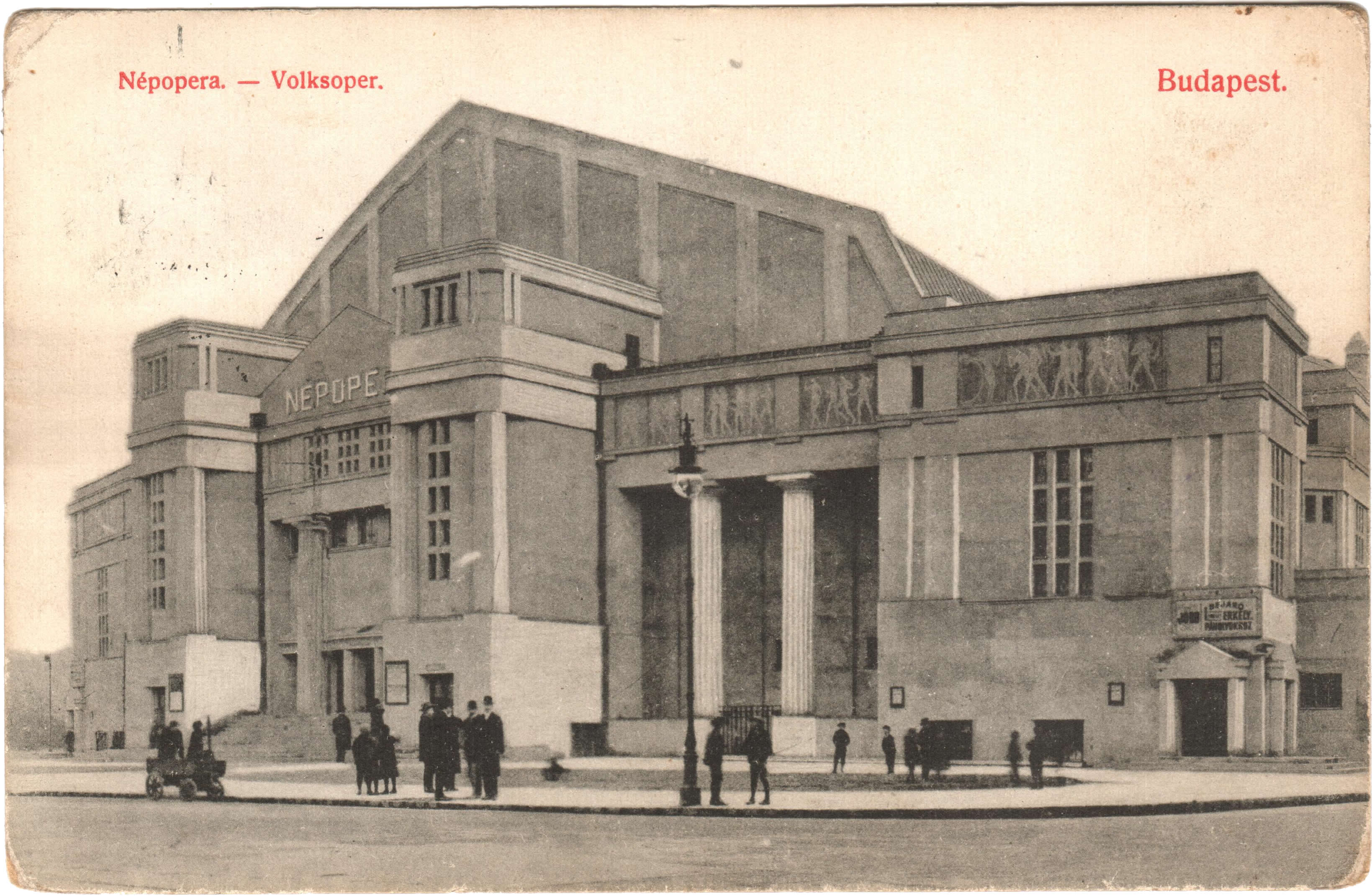 Népopera on postcard (Budapest, 1912)